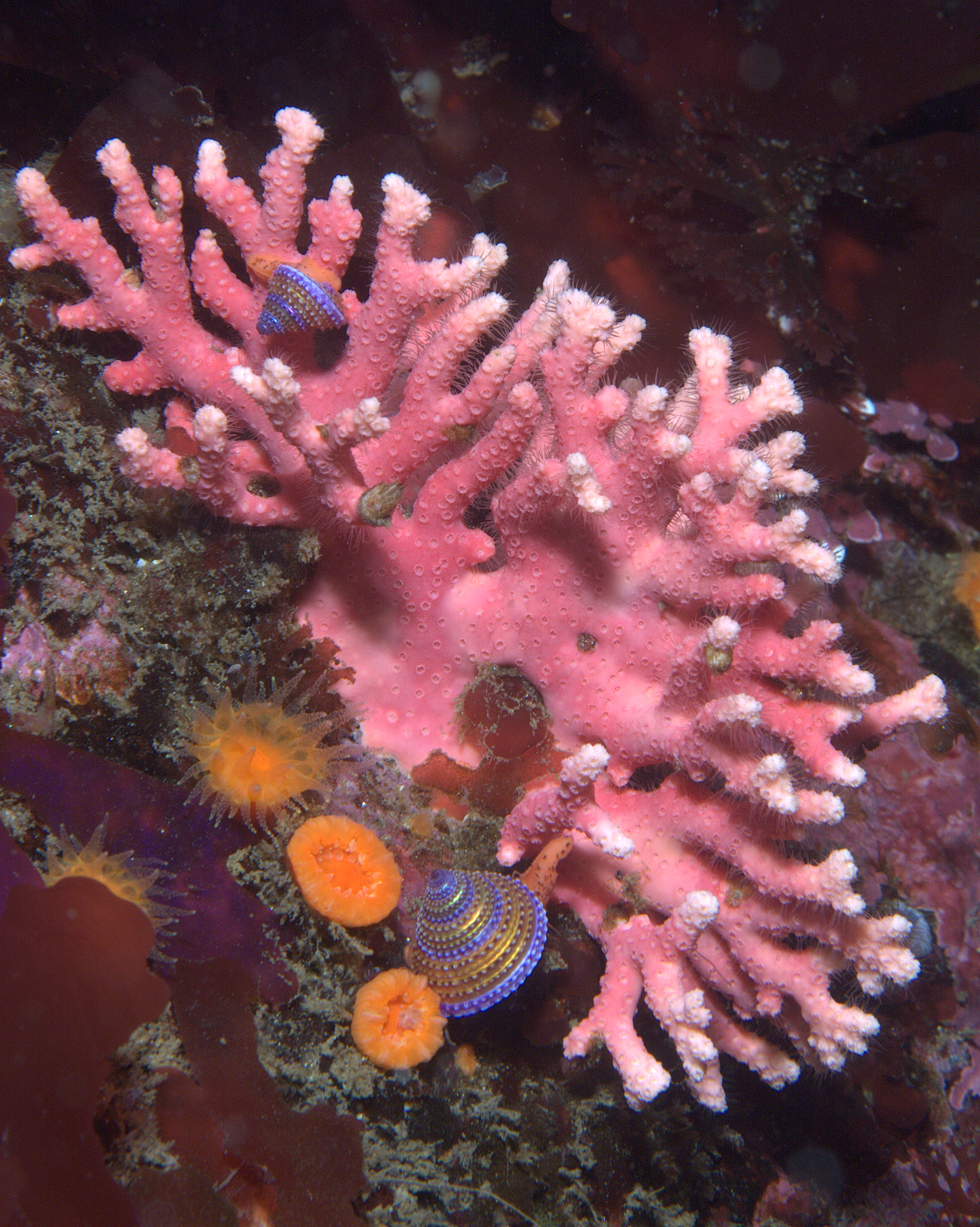 Snails (Calliostoma annulatum) and sea anemones surround this hydrocoral. Common names for the snails include purple-ring topsnail, blue-ring topsnail, and jewelled topsnail.